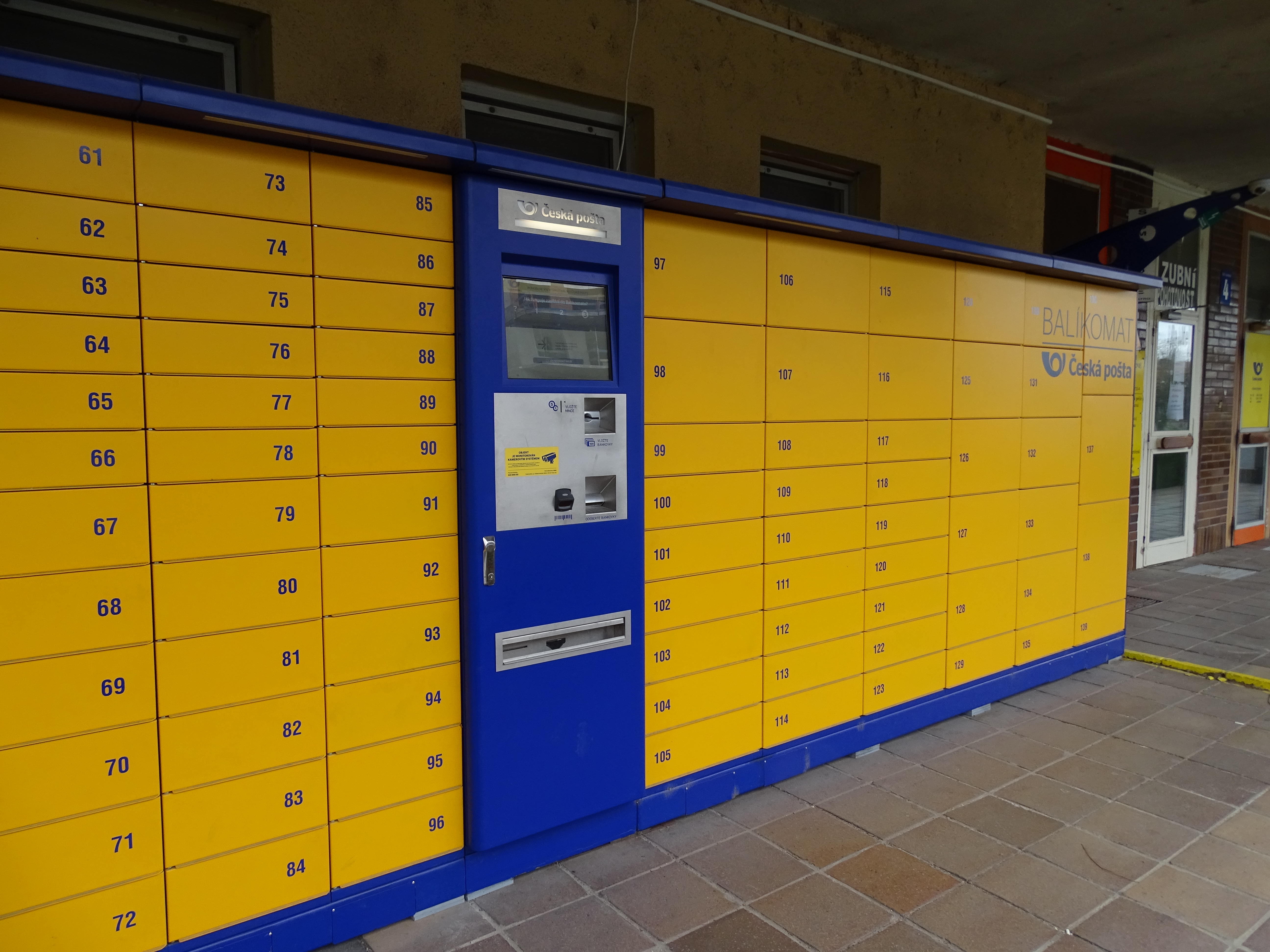 Prague-Modřany, Czech Republic. Sofijské náměstí 3406/1, a shopping centre. Balíkomat parcel boxes of the Czech Post.